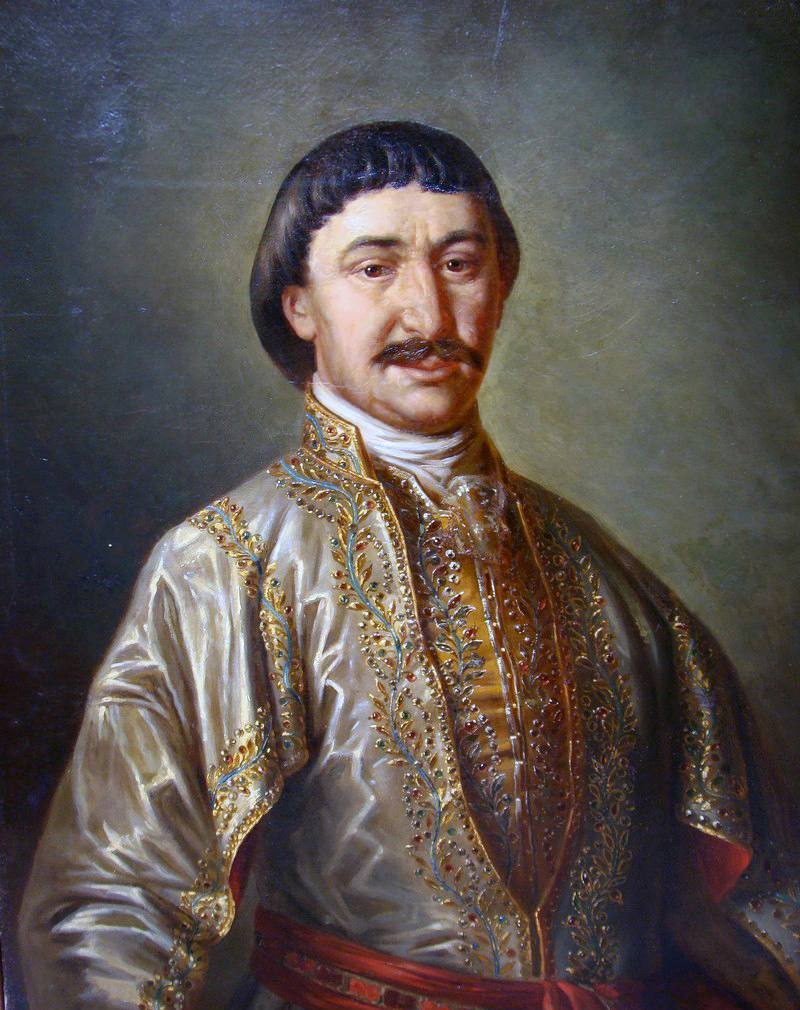 Portrait of Prince Garsevan Chavchavadze.